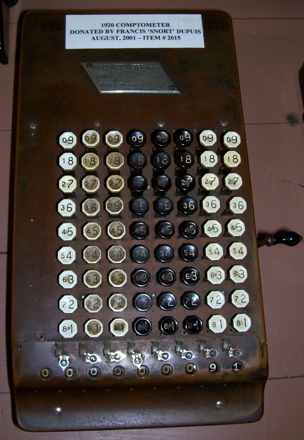 A 1920 Comptometer on display at a local history area the Peshtigo Fire Museum in Peshtigo, Wisconsin, USA. The note reads: "1920 COMPTOMETER DONATED BY FRANCIS "SNORT" DUPUIS AUGUST, 2001 - ITEM #2015" The legible portion of the silver plate reads: "TRADE COMPTOMETER MARK (illegible) Felt & Tarrant Mfg Co Chicago"